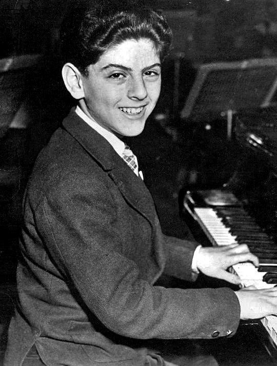 Publicity photo of Daniel Barenboim at age 15 for piano concert performance.